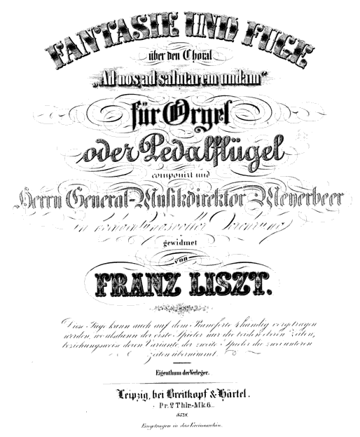 Breitkopf und Härtel ca. 1854. public domain in USA (before 1923).